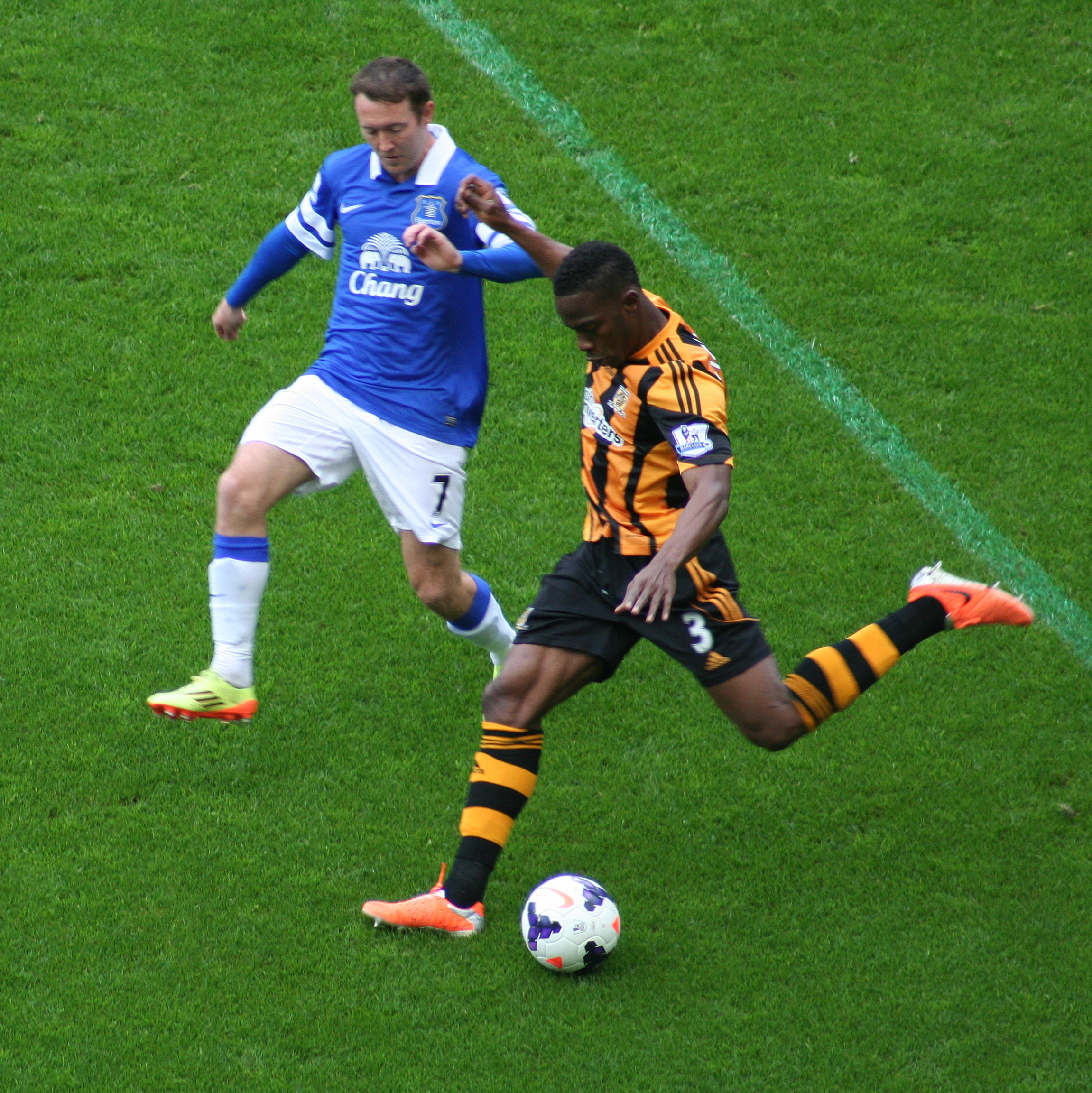 Irish football player of Everton Aiden McGeady (in blue) and Honduran Maynor Figueroa of Hull City.